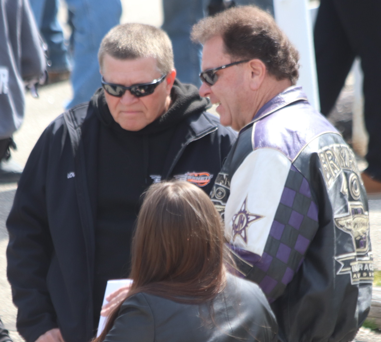 former NASCAR drivers Lowell Bennett (left) talking with Rich Bickle (right) at Slinger Super Speedway